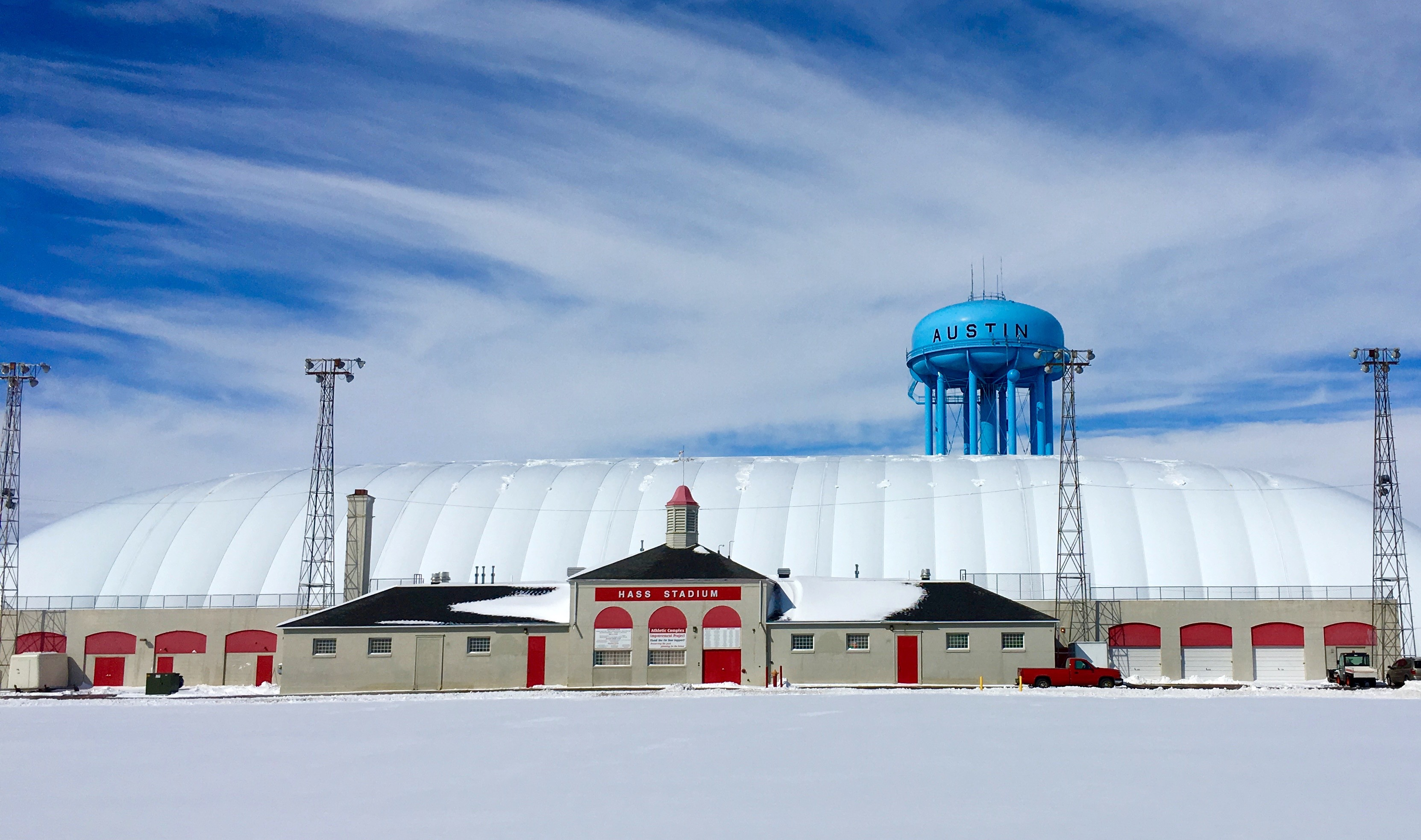 A seasonal dome athletic complex in Austin, Minnesota. Managed by Austin Public Schools.